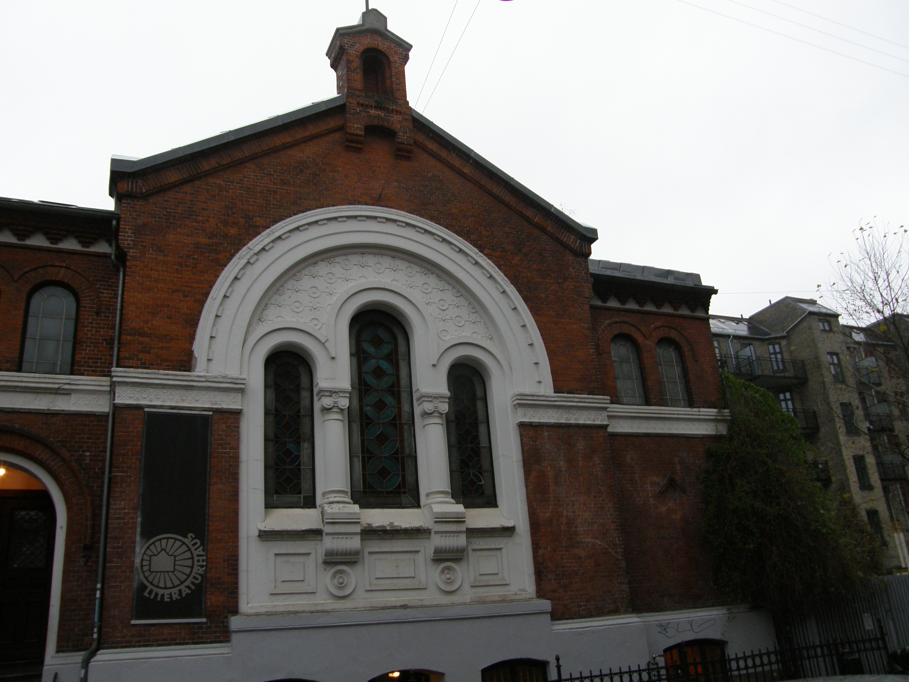 Literaturhaus / former Bethania Church, Møllegade, Nørrbro, Copenhagen, Denmark